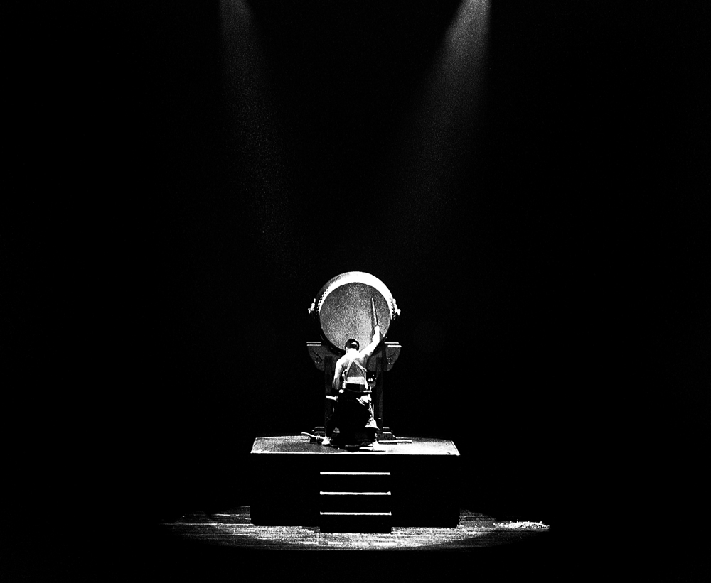 Eitetsu Hayashi performing on an ō-daiko in a 2001 concert in Tokyo, Japan.